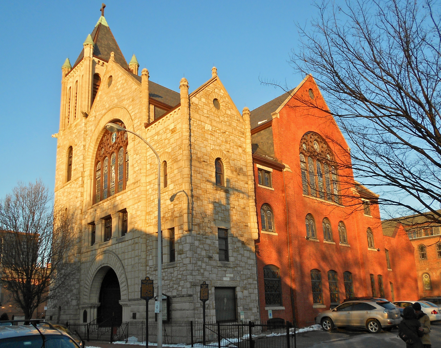 Mother Bethel A.M.E. Church listed on the NRHP on March 16, 1972 at 419 South 6th Street in the Society Hill neighborhood of Philadelphia